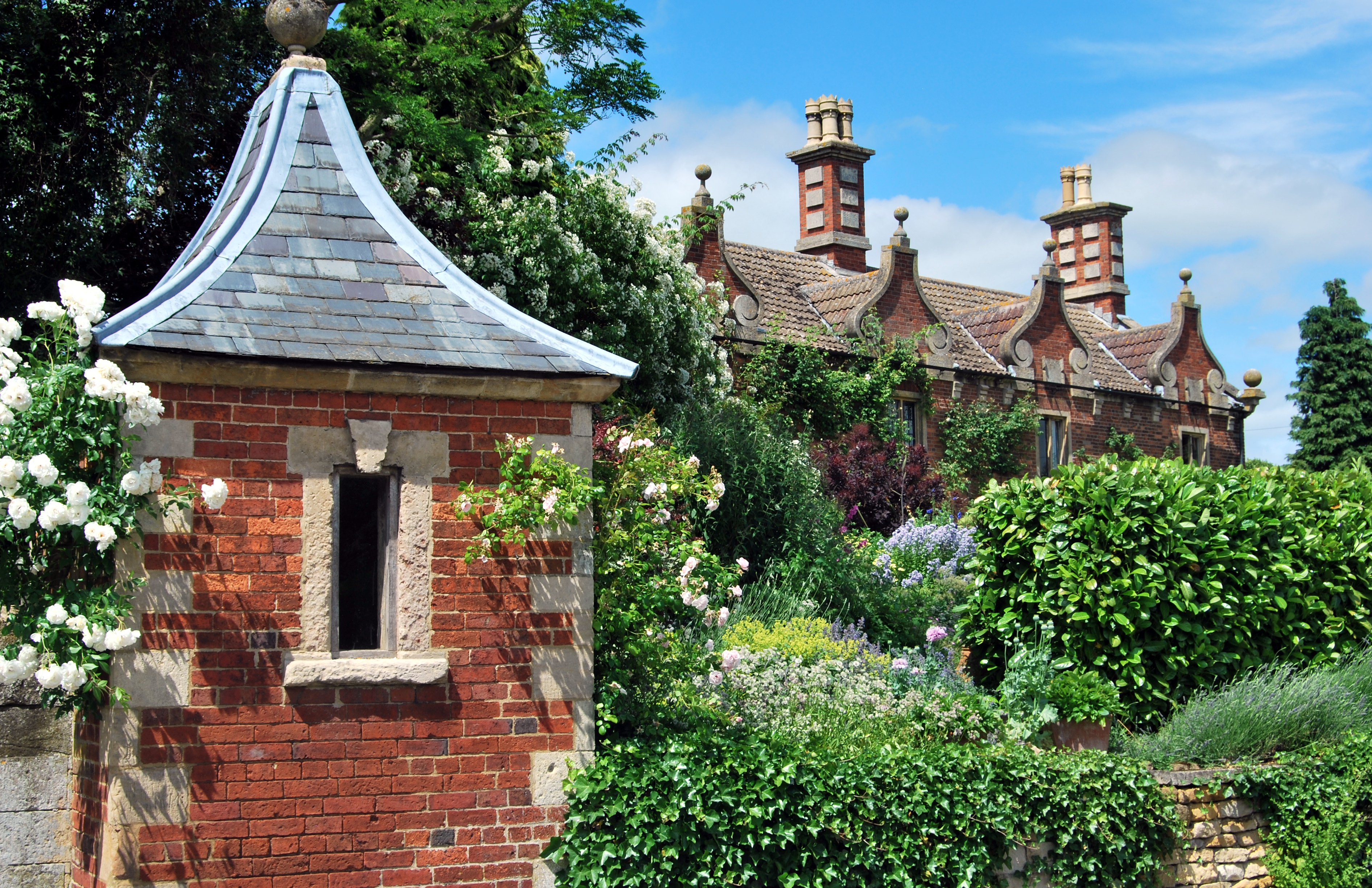 Harlaxton, Conygree House with Gazebo. Listed building